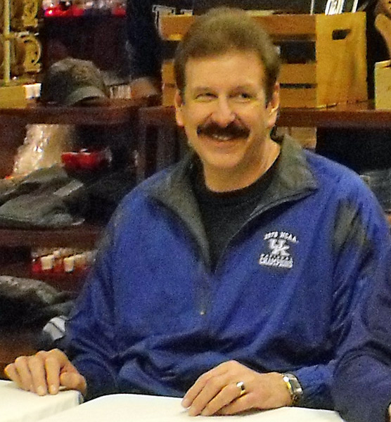 Mike Phillips at an autograph signing in 2013